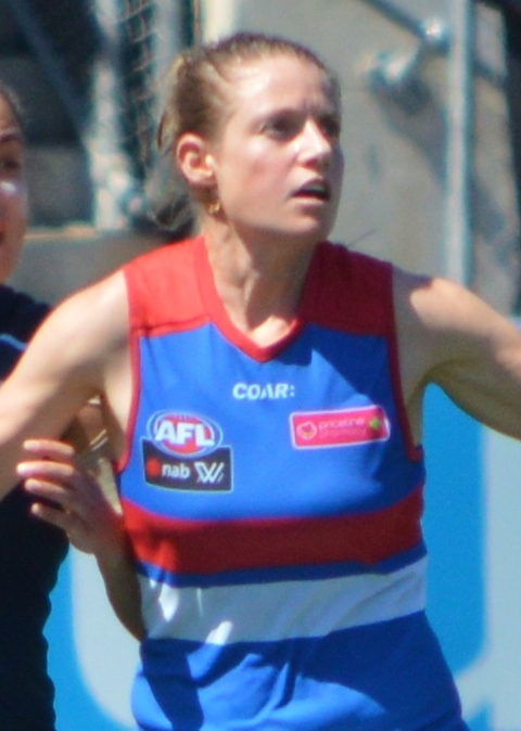 Kate Tyndall during the round 5 AFLW match between Carlton and the Western Bulldogs in March 2017